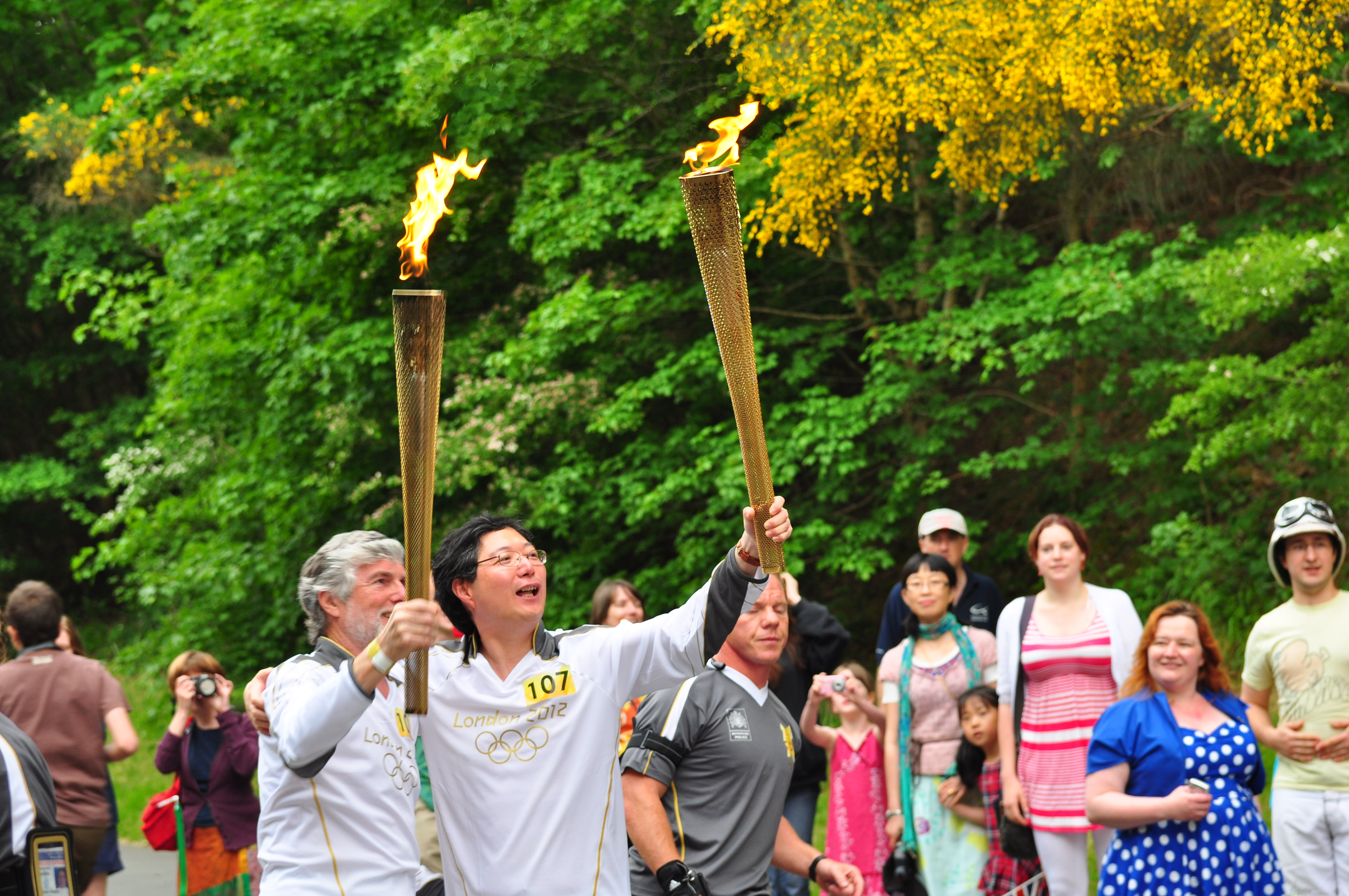 Qiang Shen passes the torch to William Williams on the outskirts of Aberystwyth. For the start of this leg of the relay, see File:2012-olympic-torch-degreeve-to-shen.JPG.